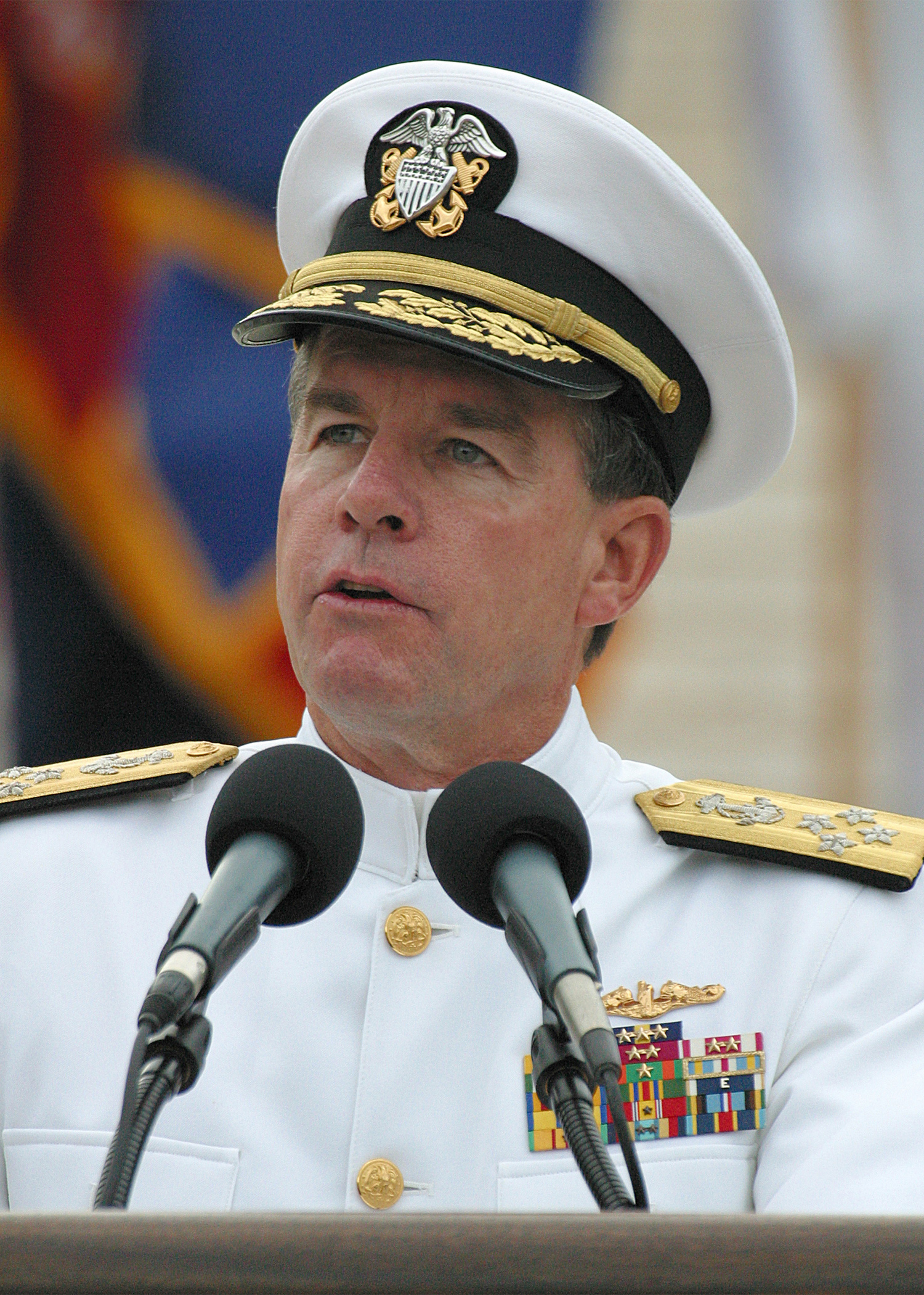 National Memorial Cemetery of the Pacific, Hawaii (Sep. 11, 2002) -- Adm. Thomas B. Fargo, Commander, U.S. Pacific Command, speaks at a September 11th Commemoration. The culturally diverse commemoration honored those who lost their lives in the World Trade Center and Pentagon terrorist attacks one year ago today. U.S. Navy photo by Photographer's Mate 1st Class William R. Goodwin. (RELEASED)